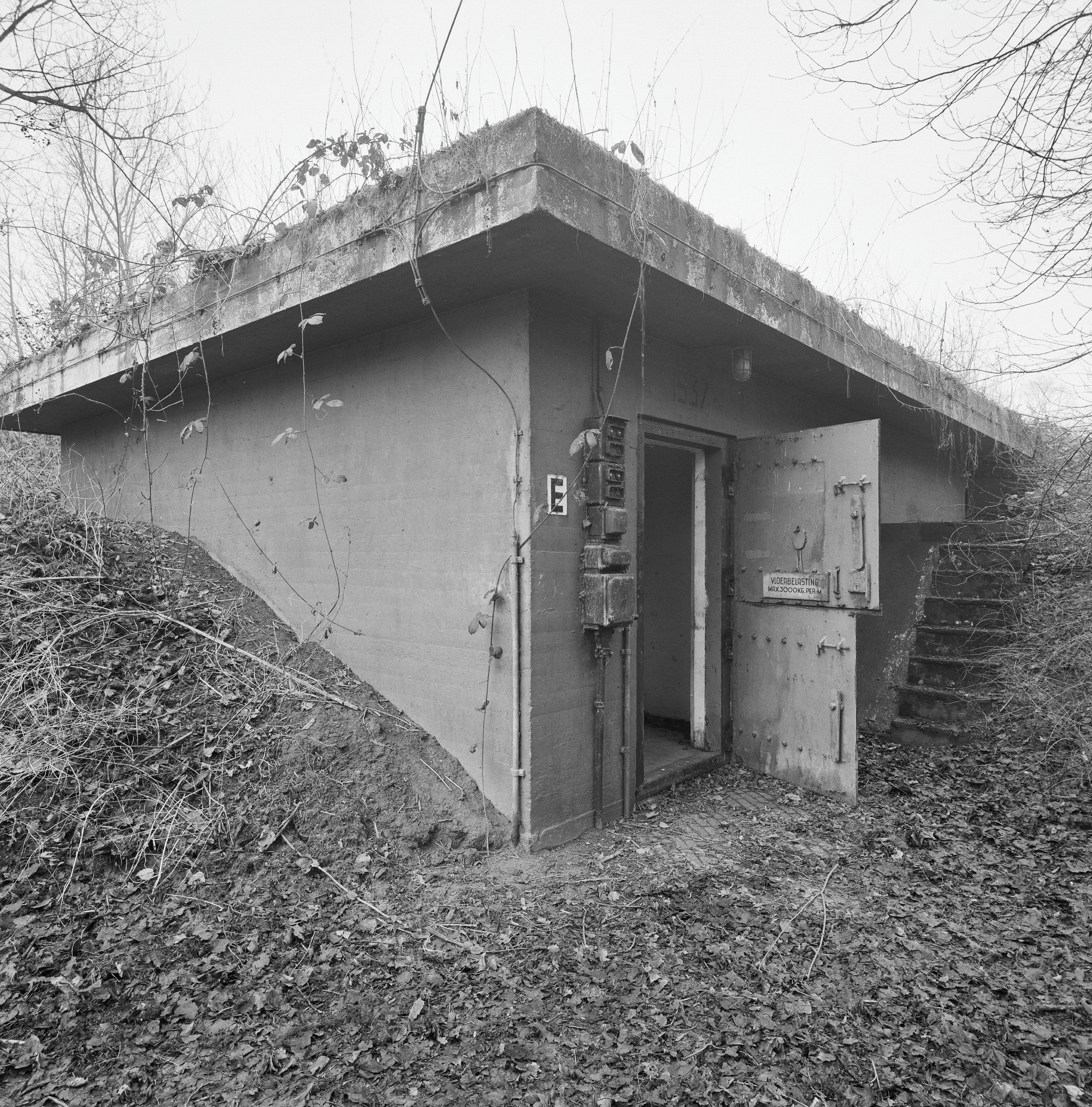 Wierickerschans Fort:bunker